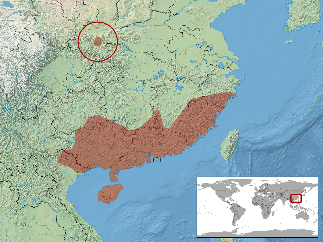 geographic distribution of Achalinus rufescens (China (Fujian, Guangdong, Guangxi, Guizhou, Hainan, Jiangxi, Shaanxi, Zhejiang); Hong Kong; Viet Nam)